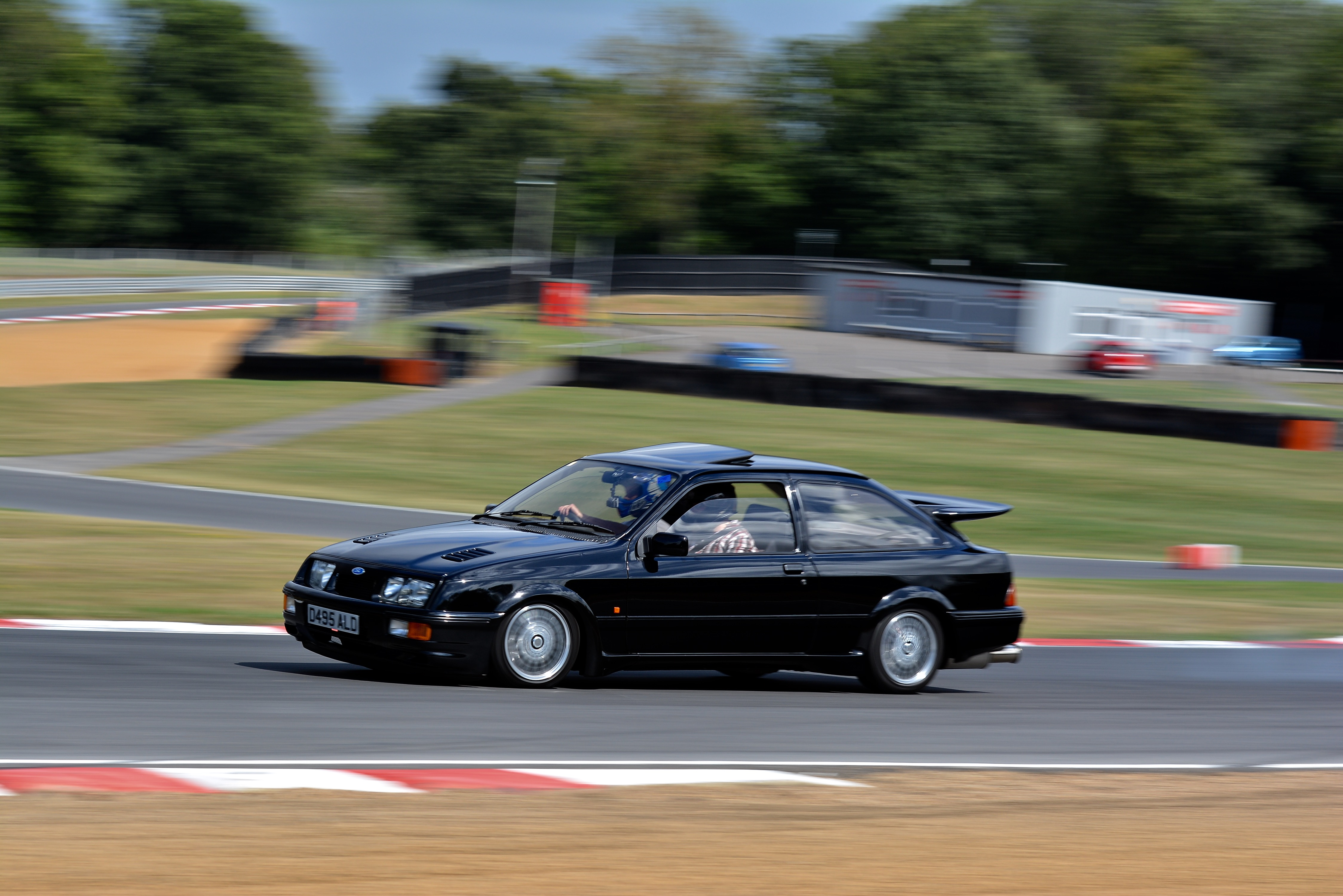 1986 3door Ford Sierra RS Cosworth photographed at Brands Hatch race circuit